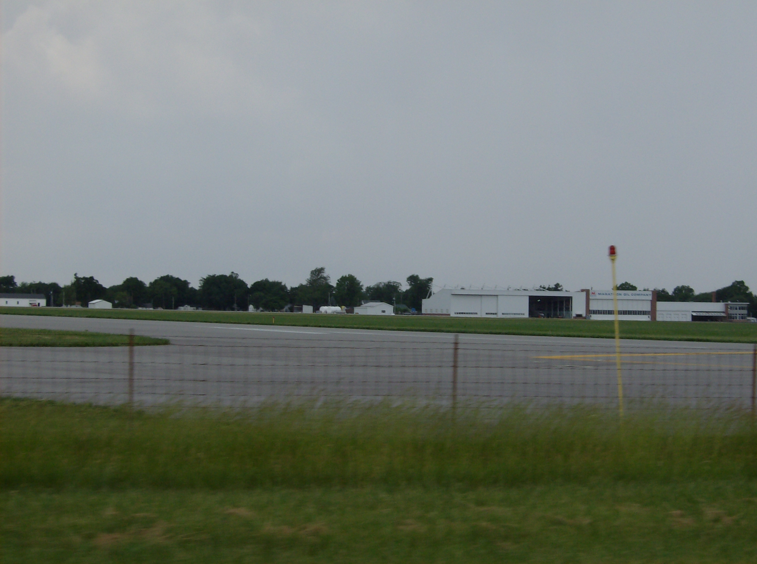 View of the Findlay Airport in Liberty Township, Hancock County, Ohio, United States. Picture taken looking westward from the concurrent U.S. Route 68 and Ohio State Route 15.